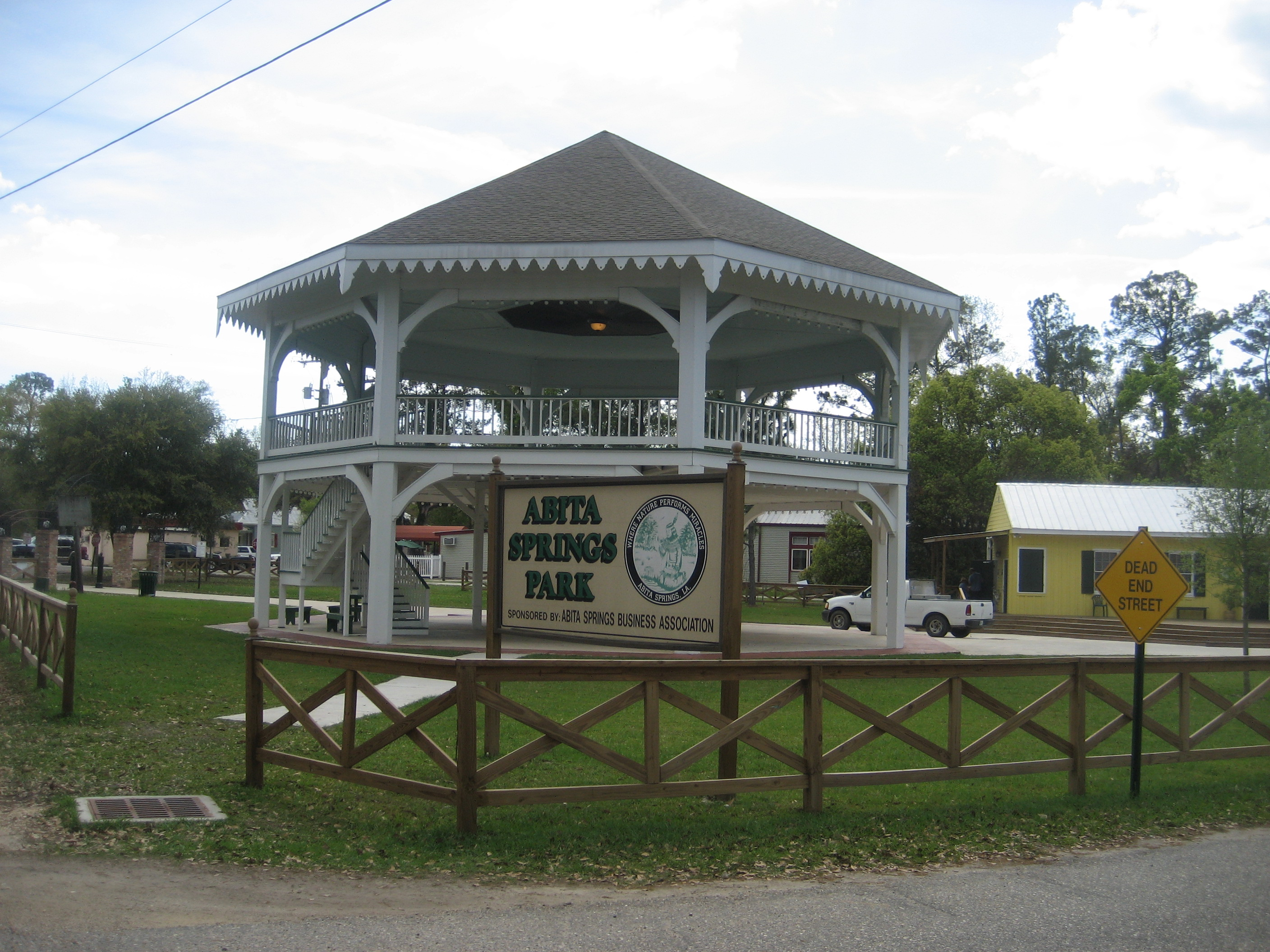 Abita Springs, Louisiana. The pavillion building, designed by Thomas K. Sully, was originally at the 1884 World Cotton Centennial Worlds Fair in New Orleans. It was reassembled in Abita Springs in 1888. For more than a century it was some 100 yards away on lower ground near the river front, but as that location was subject to periodic flooding it was moved to this current location in 2007.